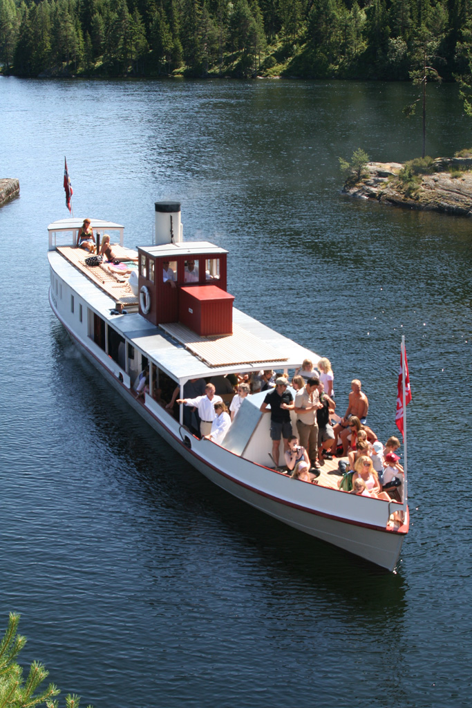 DB «Bjoren» Photo is taken by me: Odd Jarle Jørgensen For info please contact me